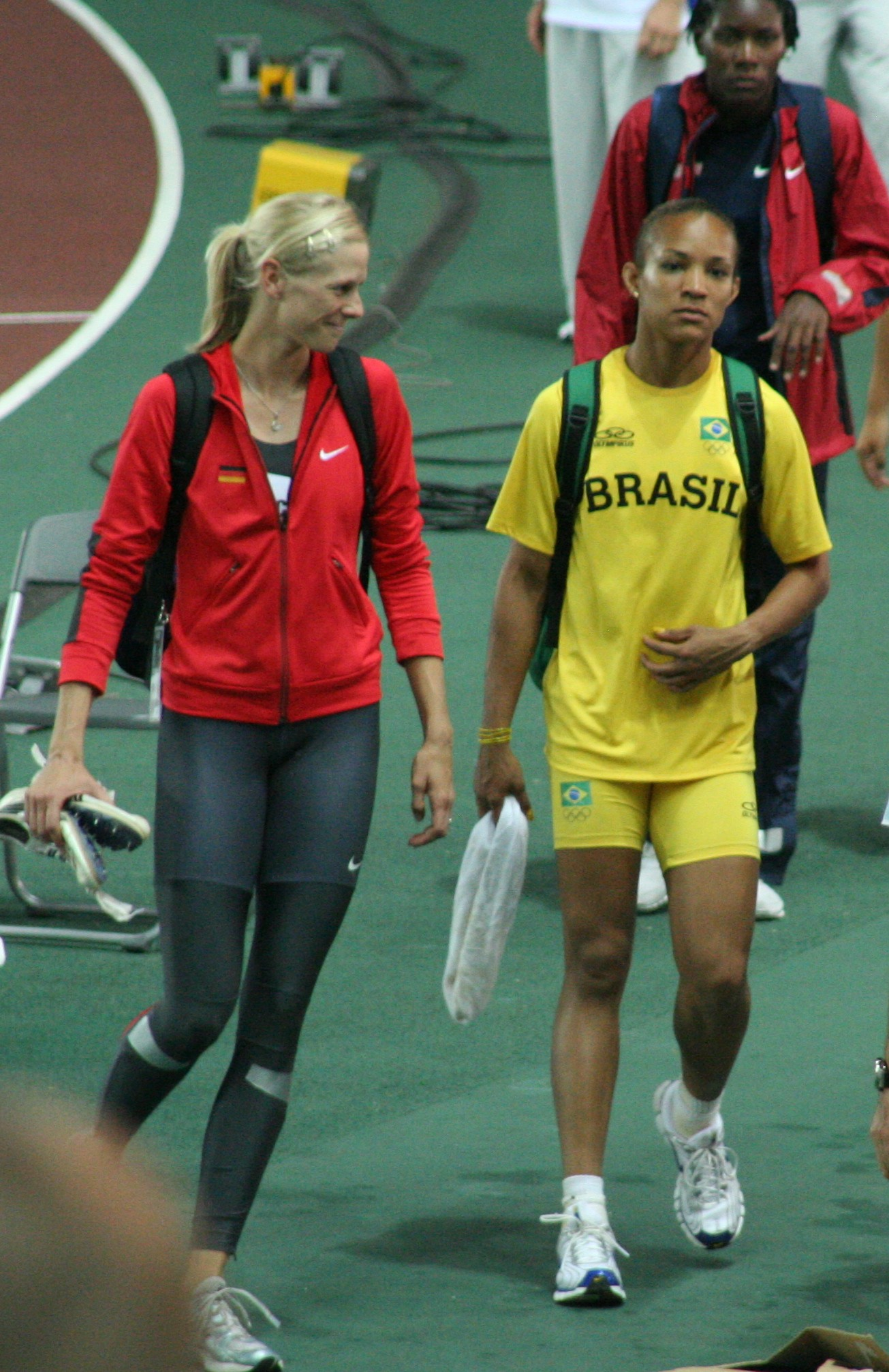 World Athletics Championships 2007 in Osaka - German long jumper Bianca Kappler (left) after finishing fifth in the final. The Brazilian athlete on the right is Keila Costa.